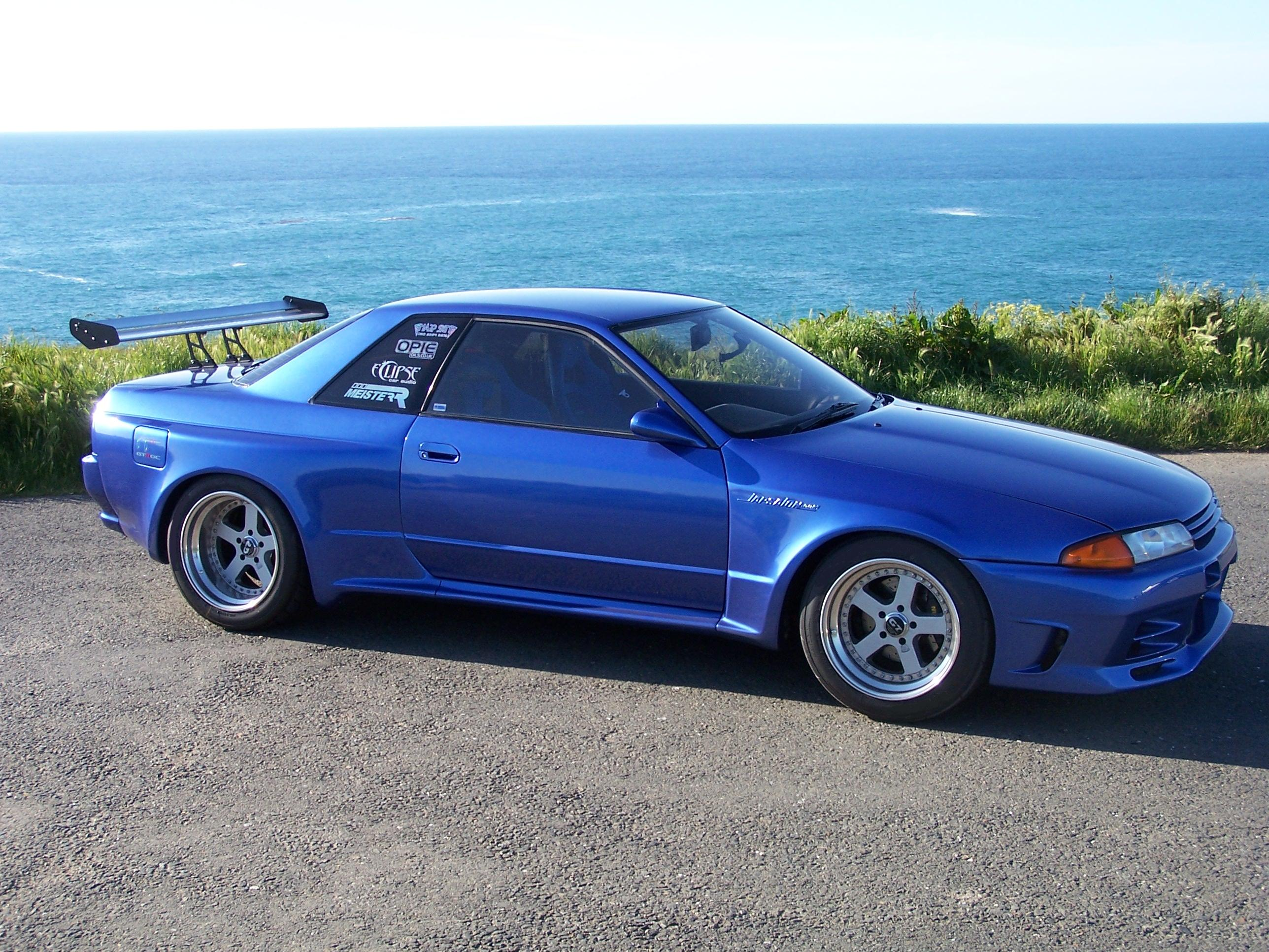 Photoshoot of ARKHMAM from Team-ARKHAM in Cornwall.